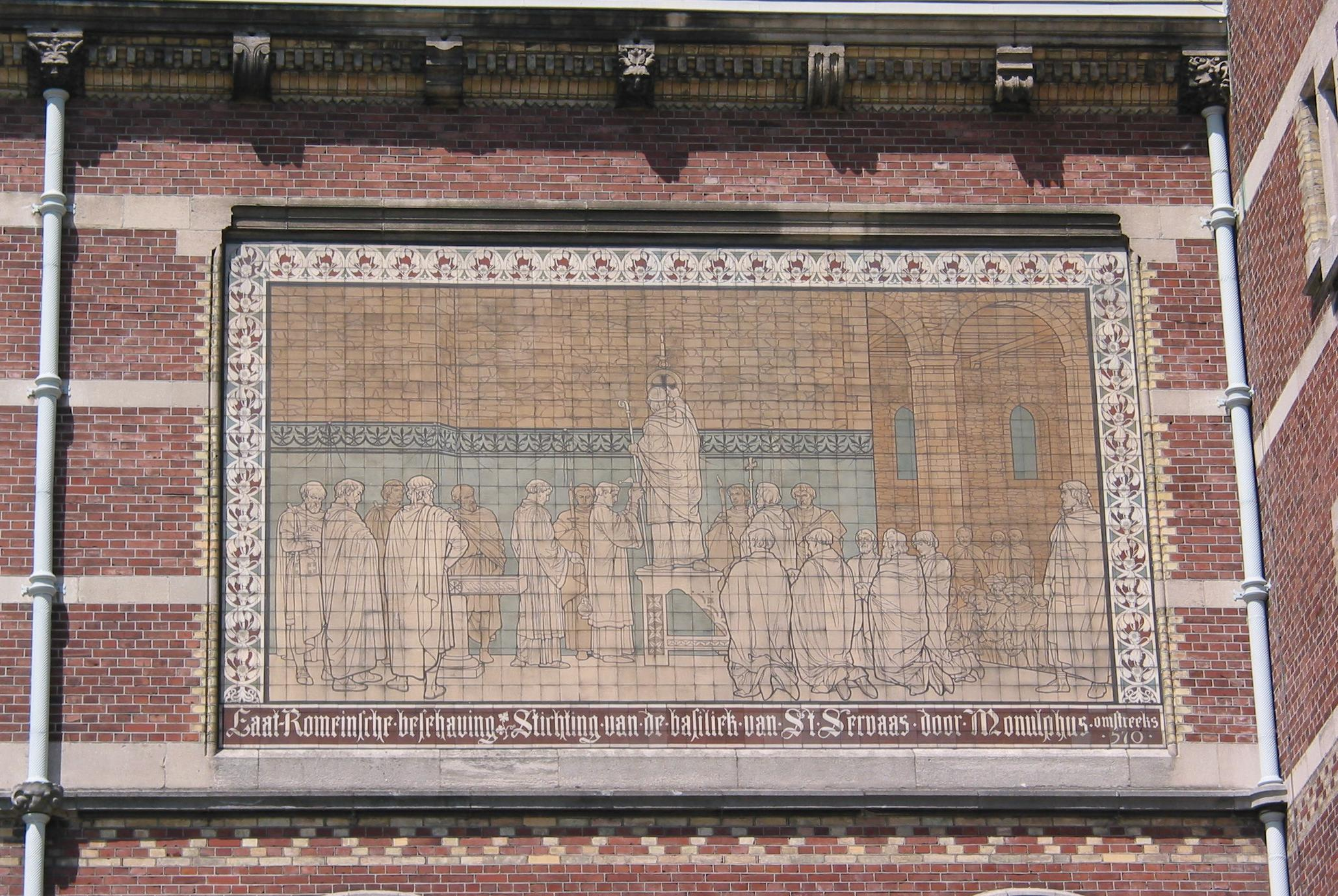 Tile picture 'Roman civilization. Foundation of the Basilica of Saint Servatius by Monulphus. Around 570'.